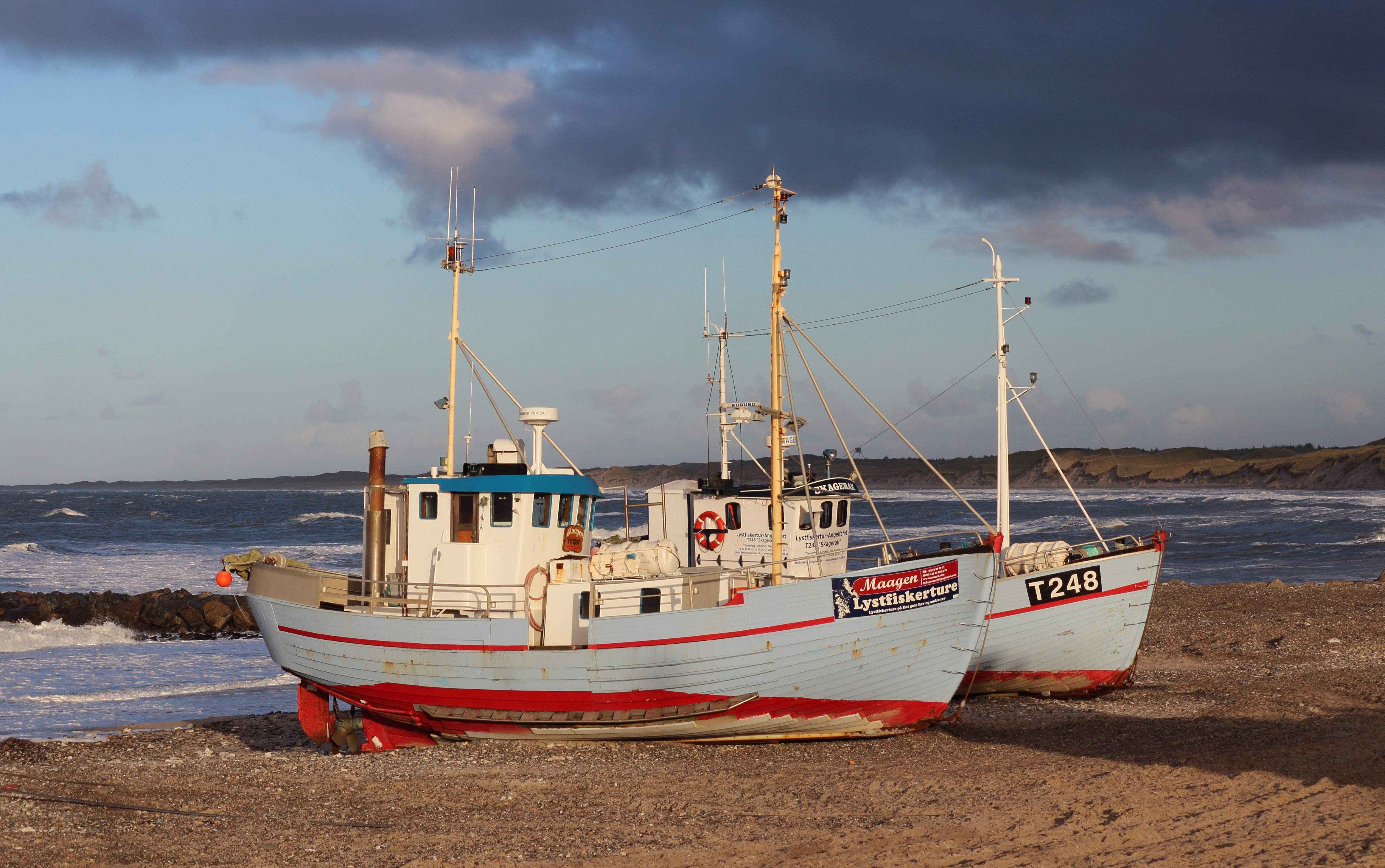 The leisure fishing vessels Maagen and Skagerak beached at Nørre Vorupør, Denmark.